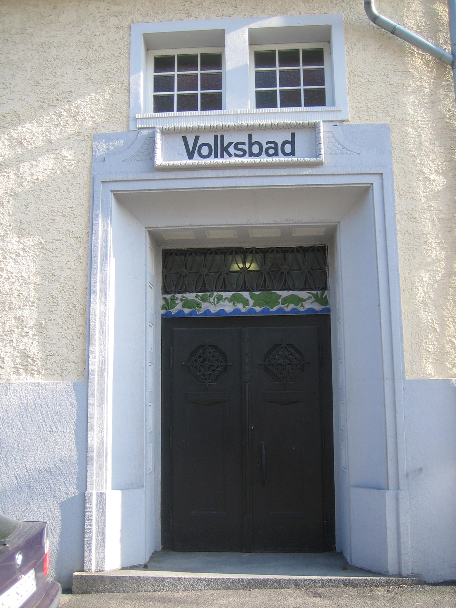 Entrance of the public bathrooms integrated in the Pestalozzi school erected 1908/1909 in Mainz-Mombach.